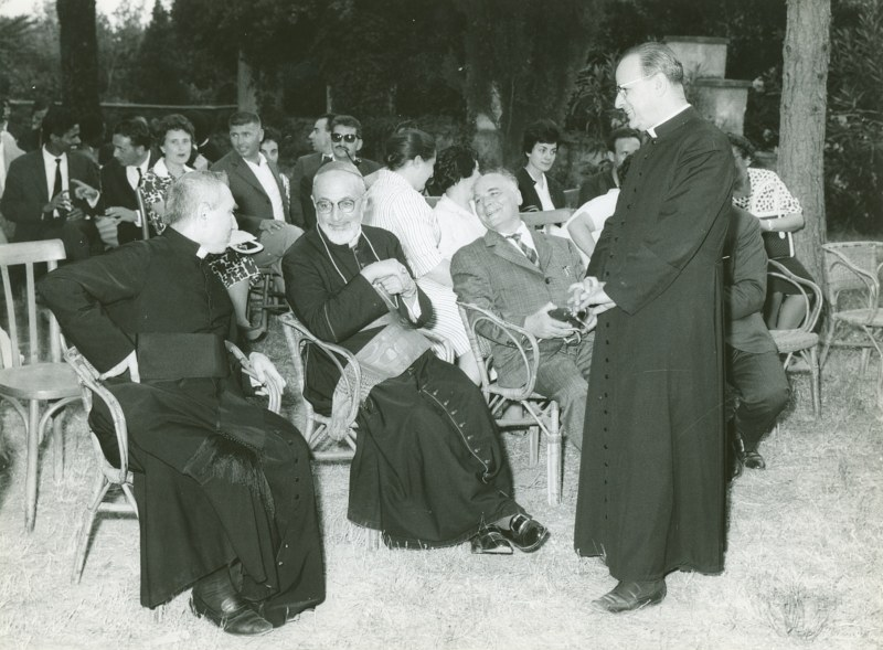 Canova, Agagianian, others, Rome conference